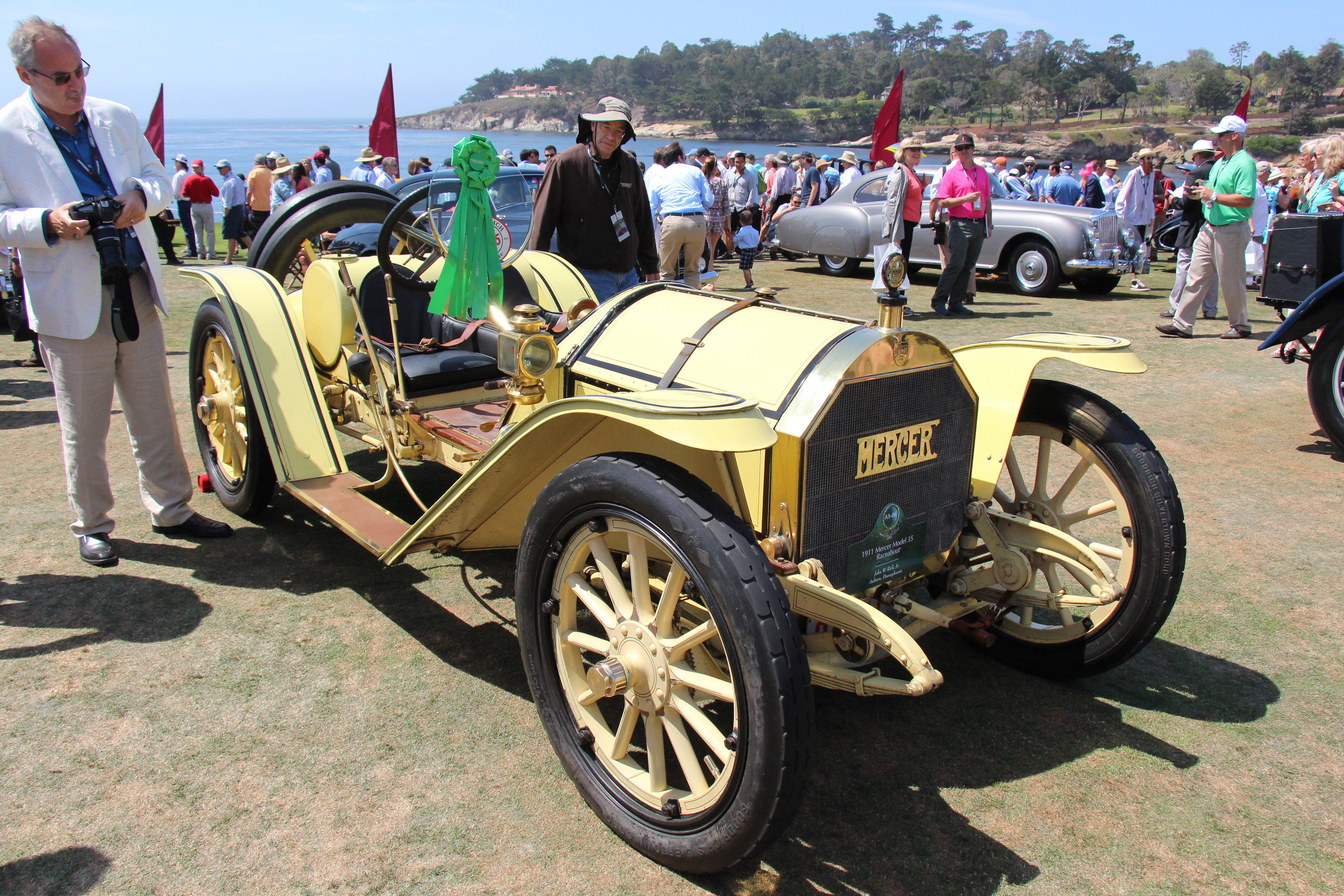 Mercer was an American automobile manufacturer from 1909 until 1925. It was notable for its high-performance cars, especially the Type 35 Raceabout. The Model 35 Raceabout was a stripped-down, two-seat speedster, designed to be safely and consistently driven at over 70mph. It was capable of over 90 mph. It won 5 of the 6 1911 races it entered in. Hundreds of racing victories followed. The Raceabout became one of the premier racing thoroughbreds of the era highly coveted for its quality construction and exceptional handling. Engine; 55hp 293 cu in 4 cyl Photographed at the 2015 Pebble Beach Concours d'Elegance